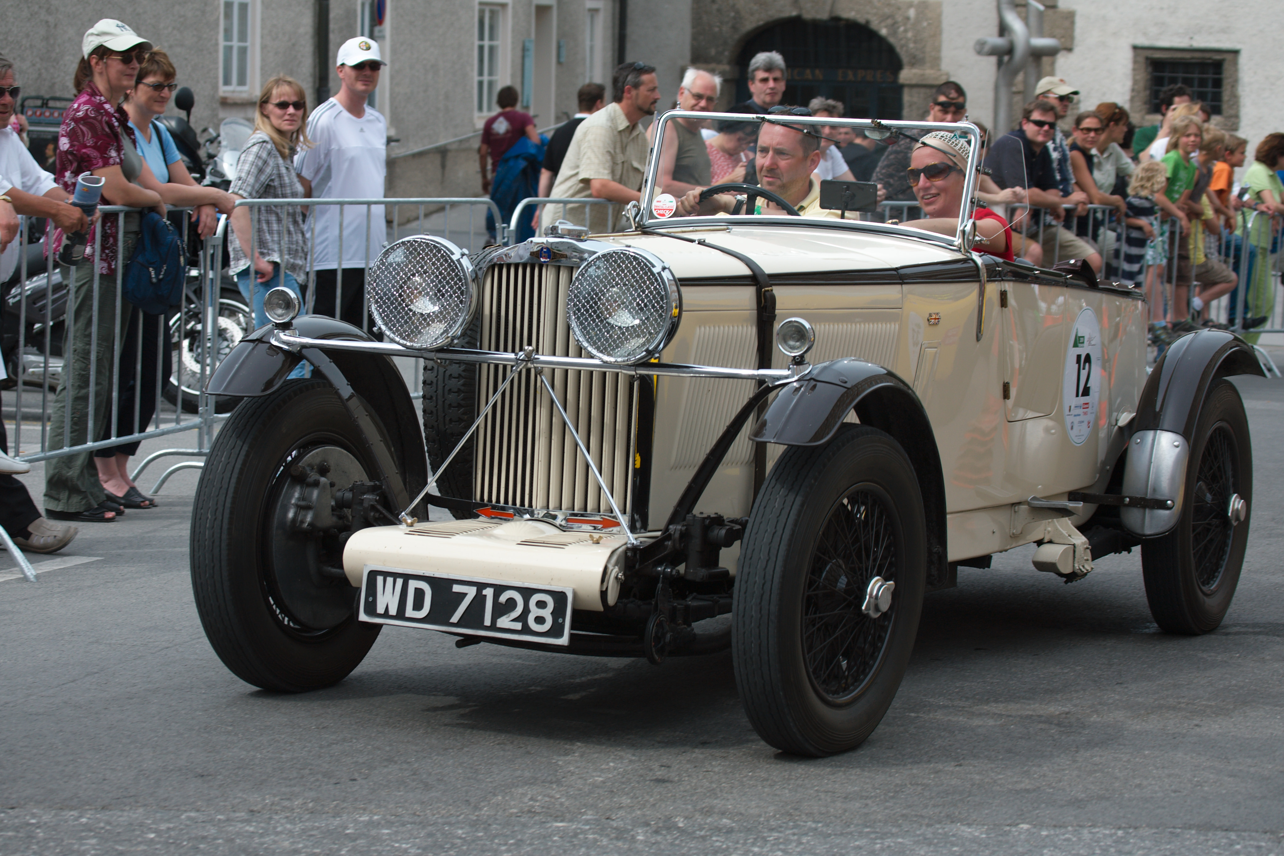 Talbot AV 105(DVLA) first registered 23 March 1934, 2980 cc from 1934 at Gaibsergrennen 2009 in Salzburg